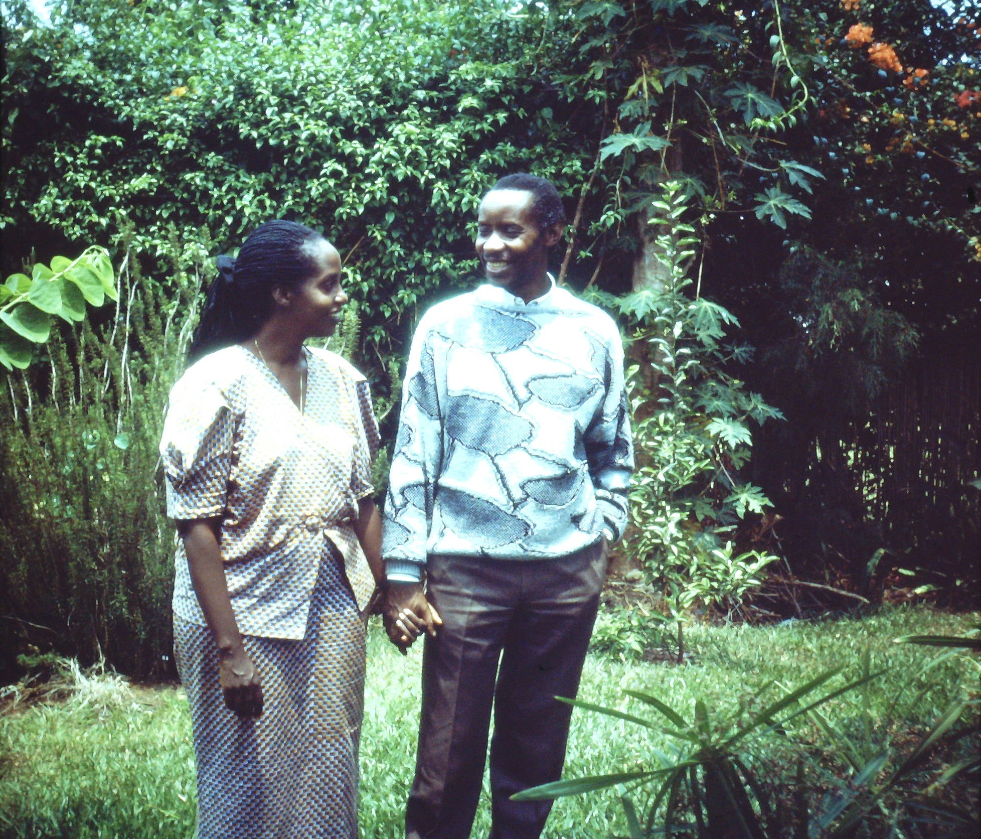 Photograph of Cyprian and Daphrose Rugamba, taken in 1992 in the garden of their home in Kigali (Rwanda).